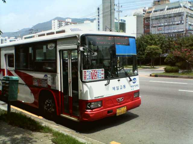 Changwon City Bus # 705 (Photo Location: Daebang-dong, Changwon-si)